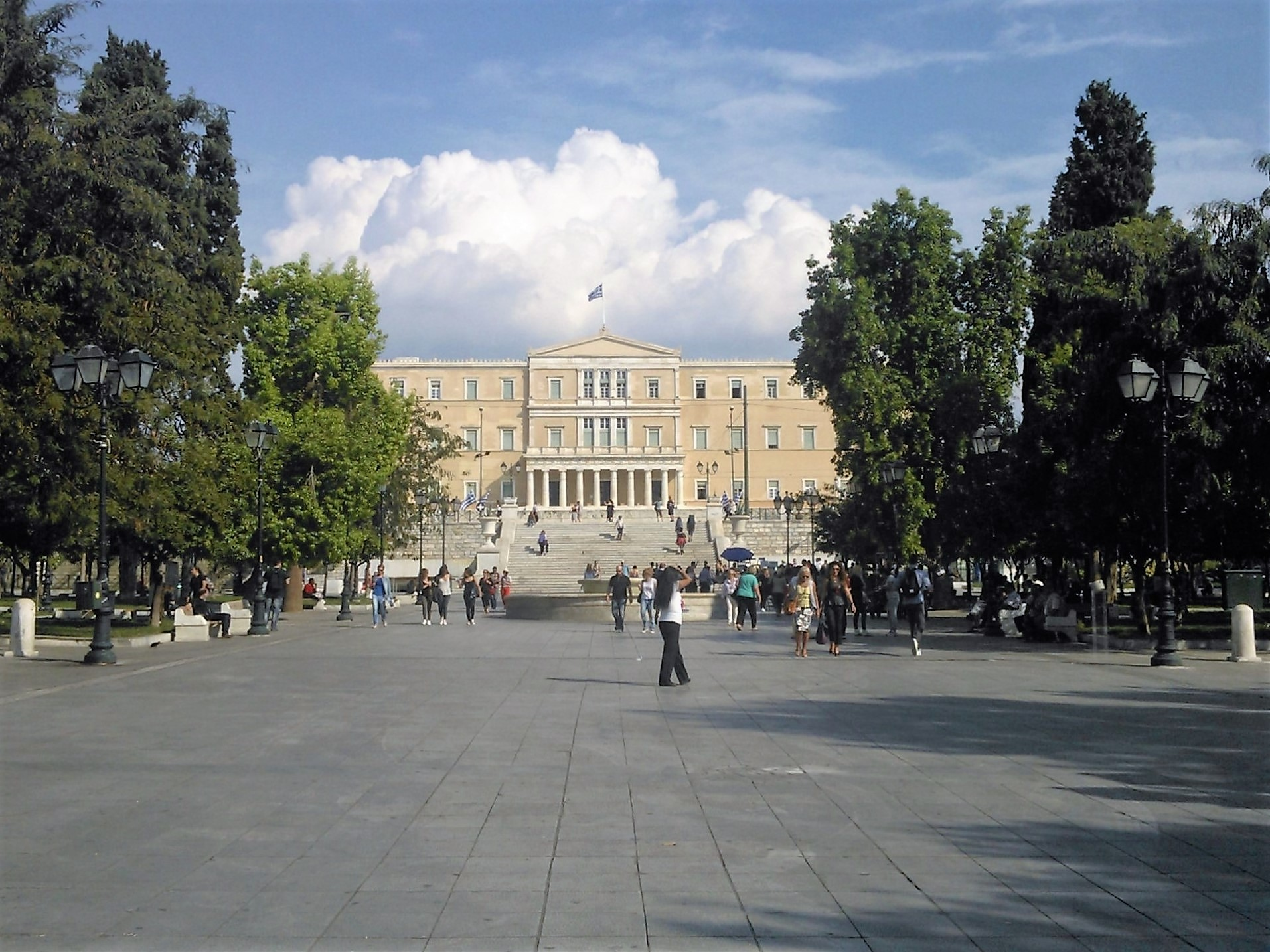 View of Constitution Square ("Syntagma" Sq.) in 2015 towards the Old Royal Palace.